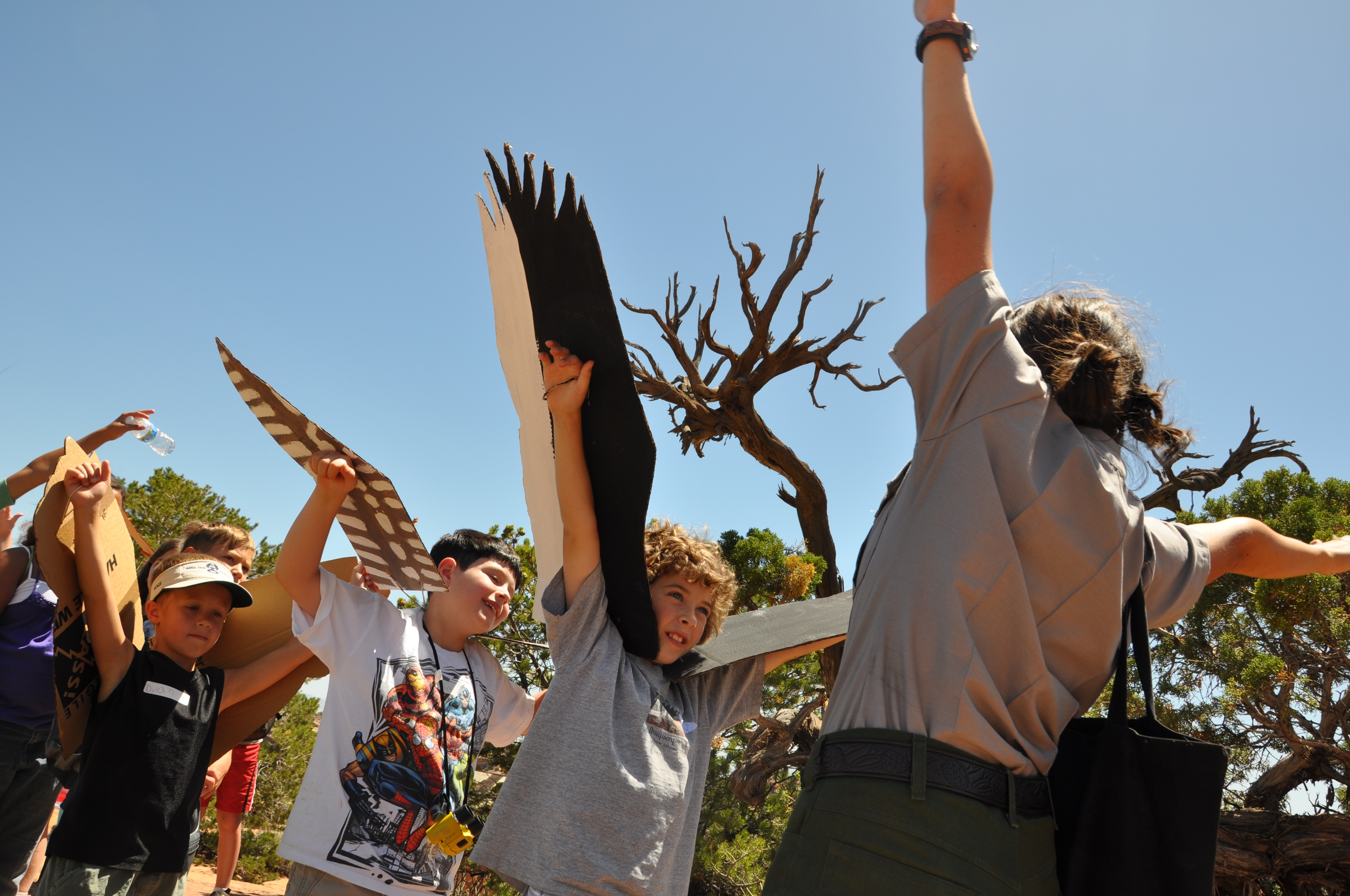 Colorado NM Junior Ranger Camp Raptor Week